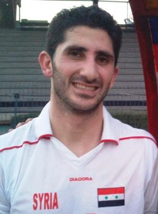 Senharib Malki - Syrian football player